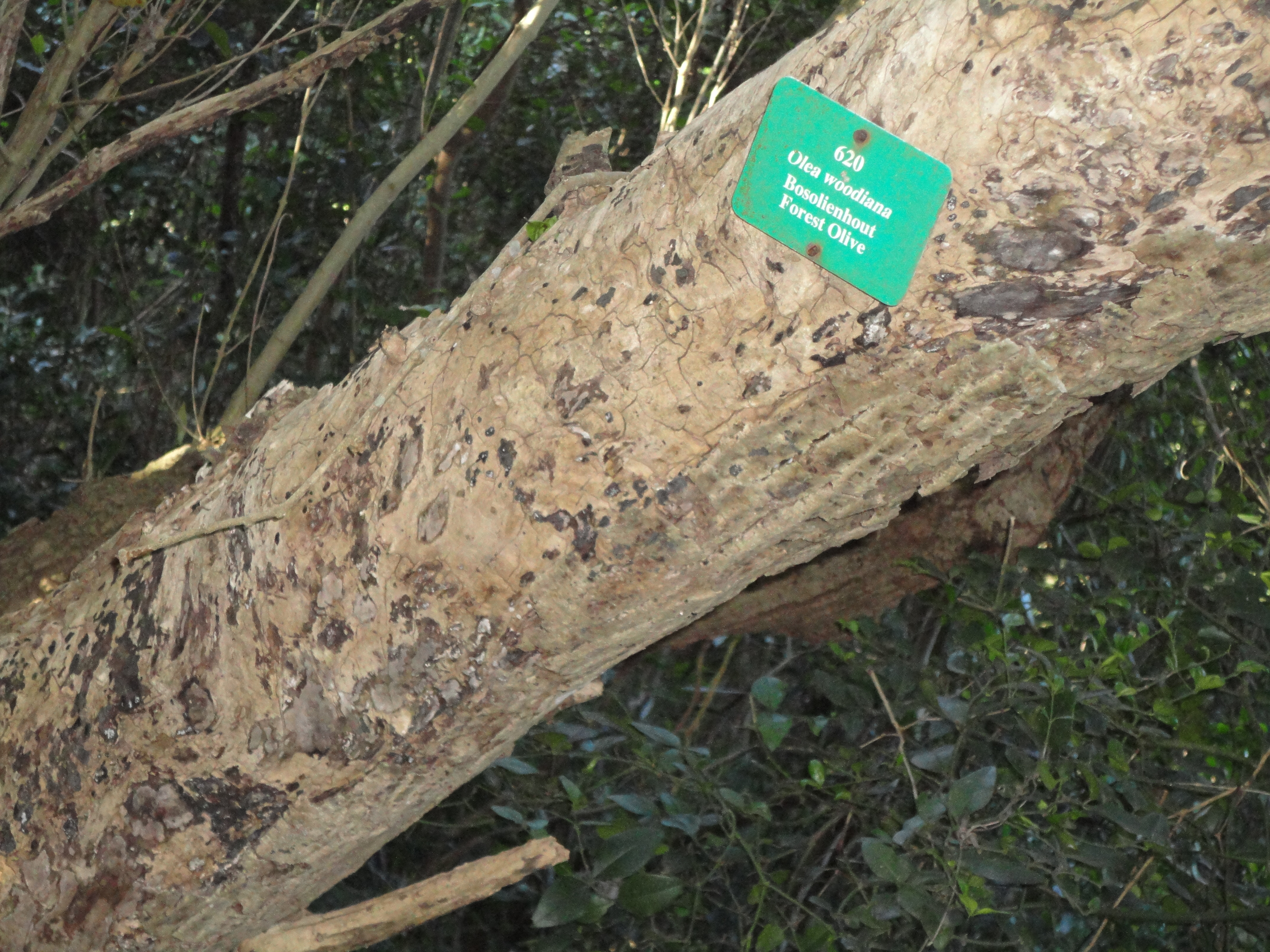 Trunk of a Forest Olive in Burman Bush Nature Reserve, KwaZulu-Natal